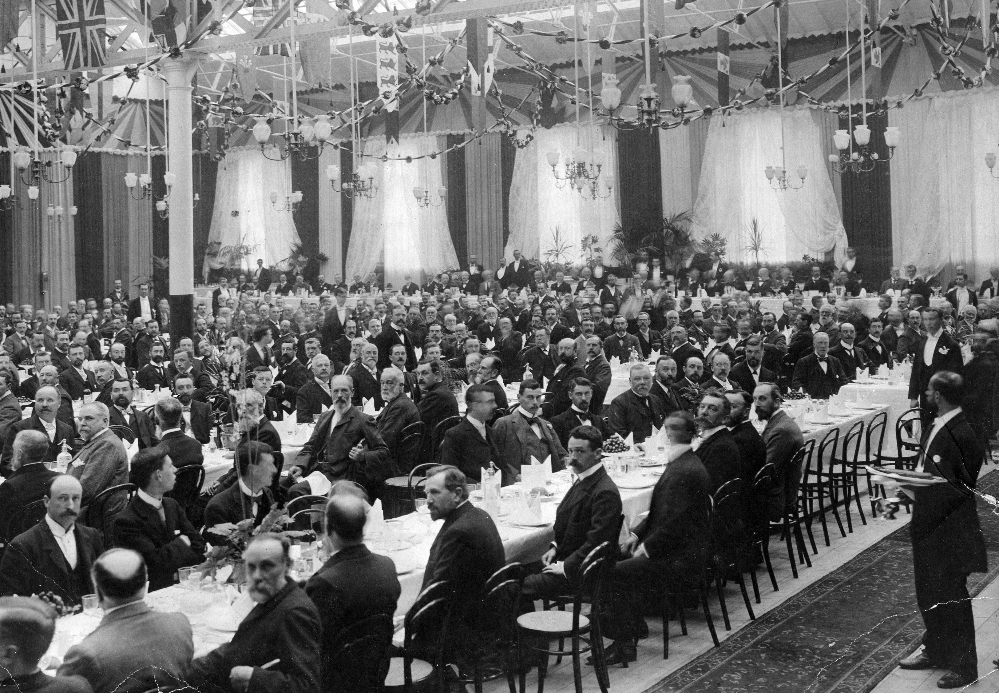 Annual dinner of the Institute of Mechanical Engineers, Derby, 1898. It was held in the carriage works of the Midland Railway Company.